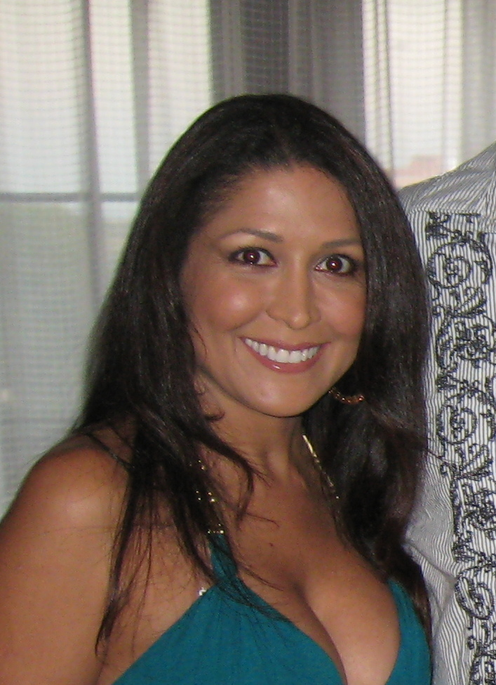 Yomary Cruz at a party at RTX 2011.